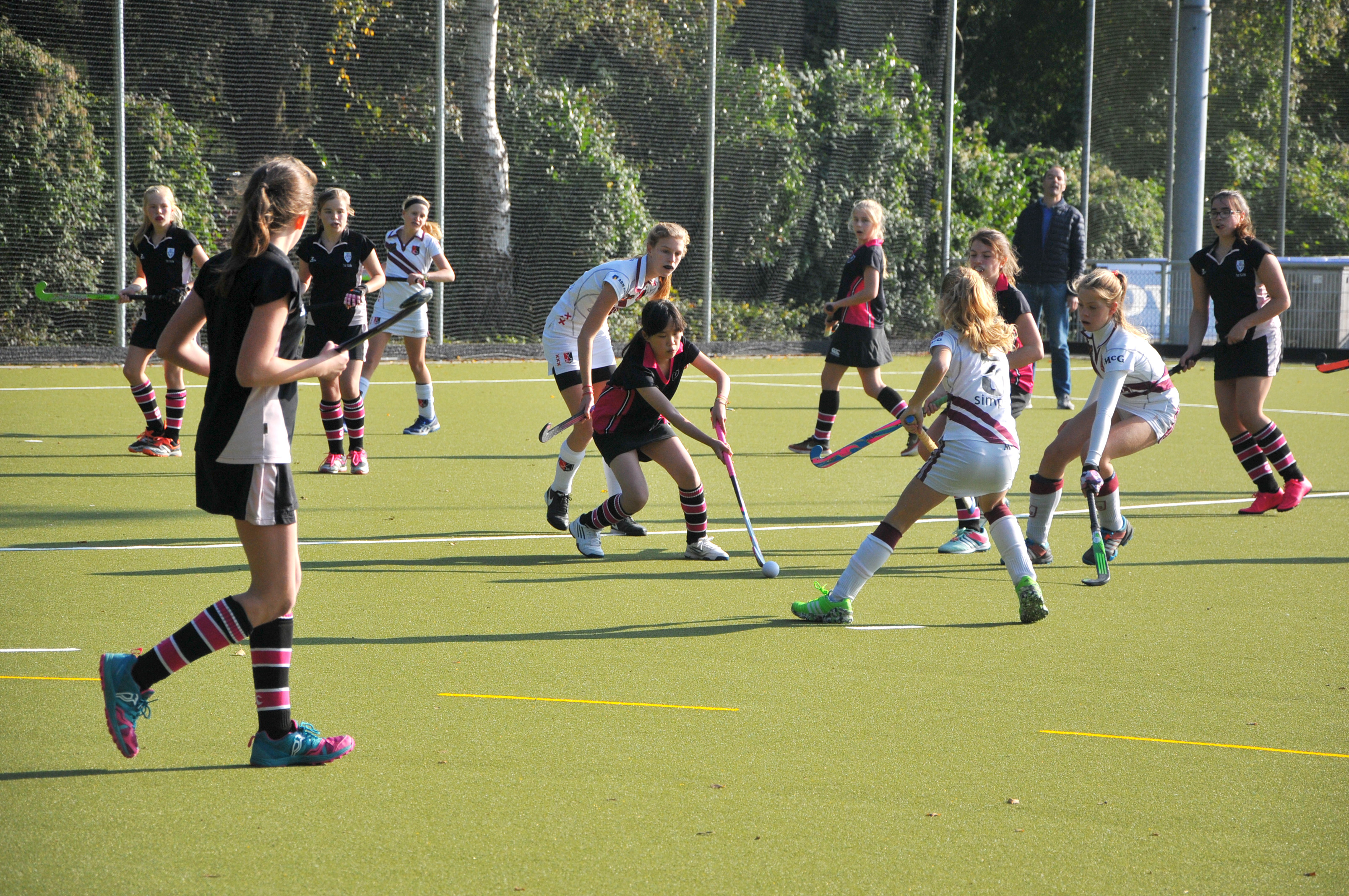 Action from the game against AH & BC in Amsterdam (Oct. 2016)